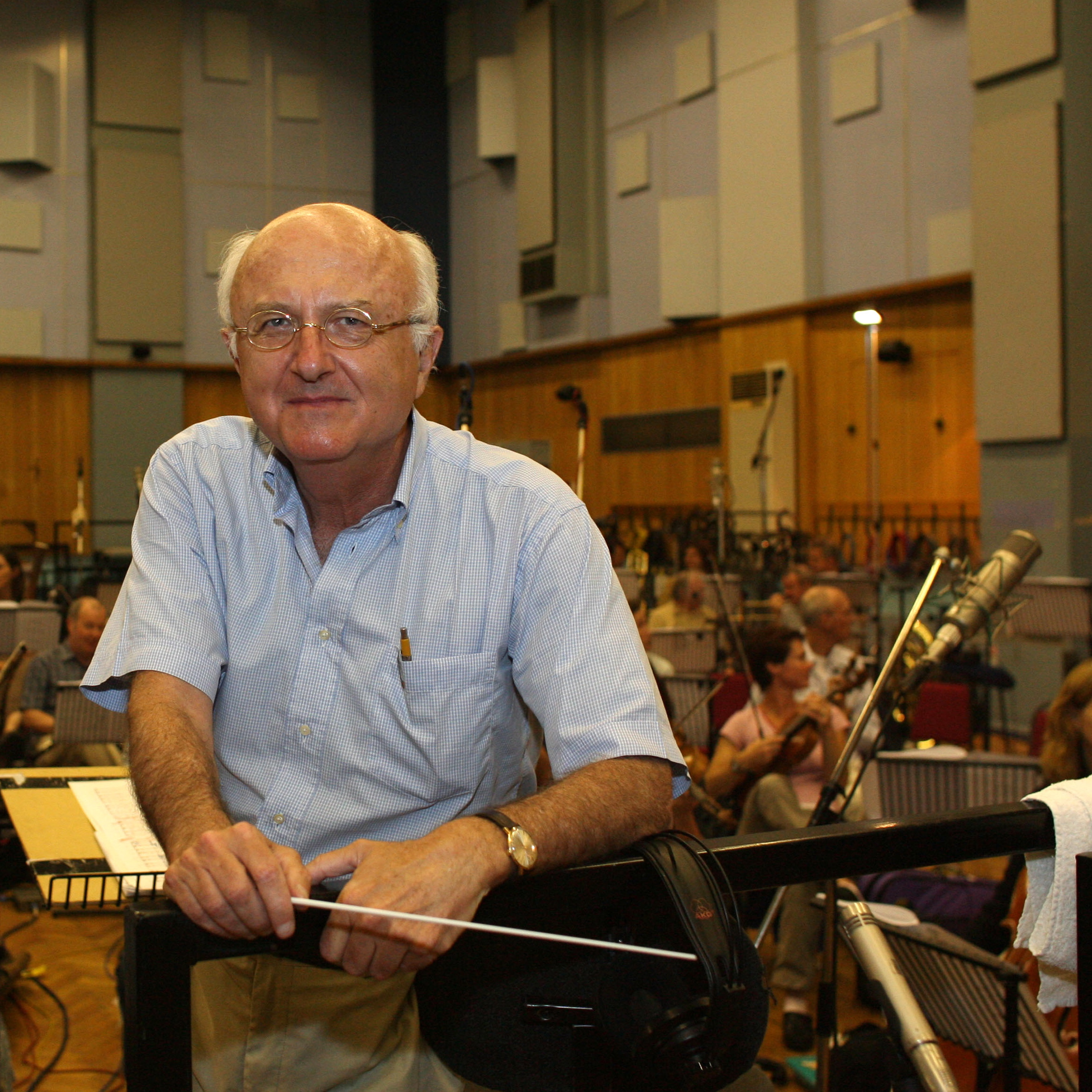 The music composer Vladimir Cosma. London, 2007, Marius & Fanny recording at Abbey Road Studios.